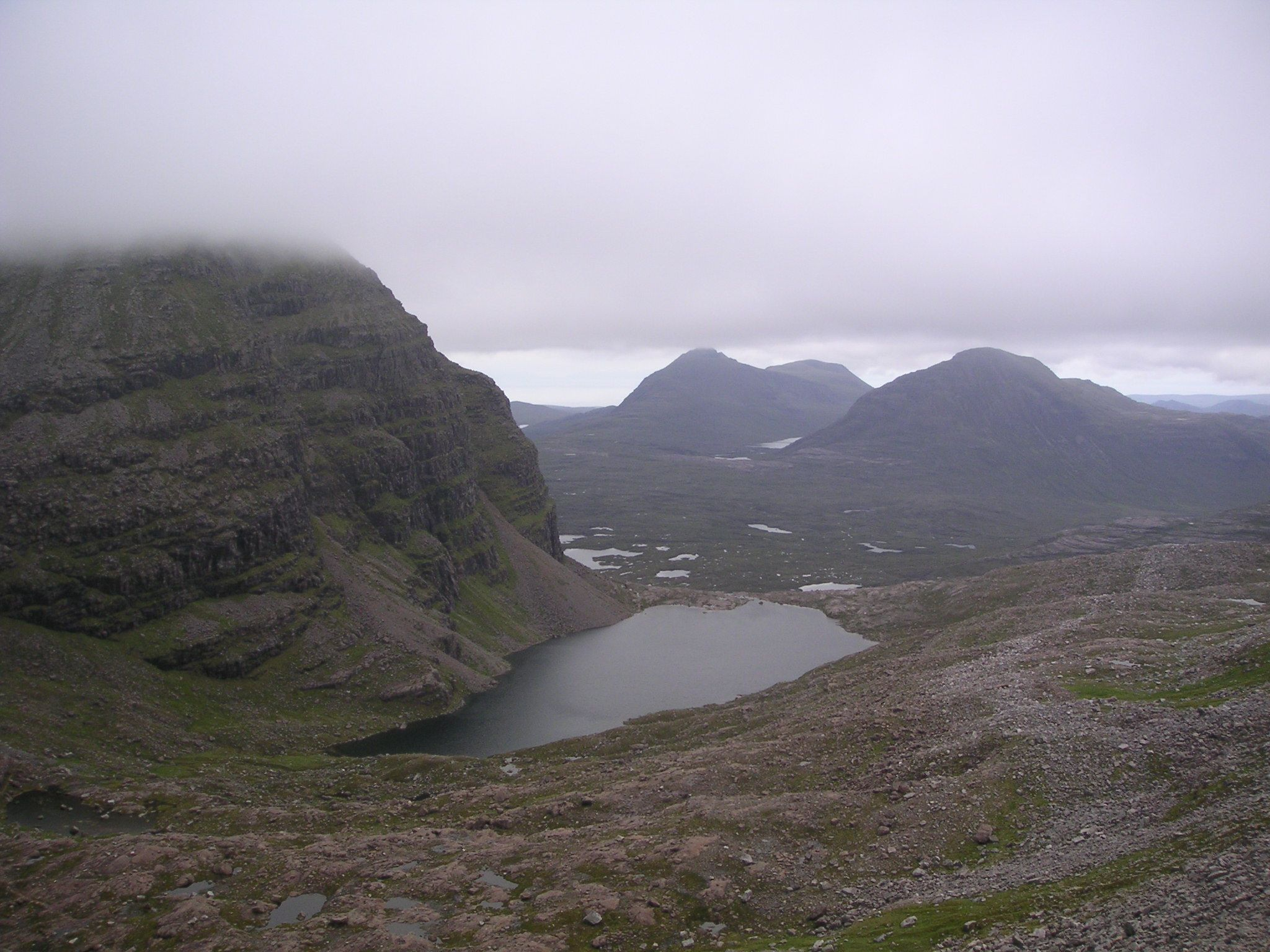 Descent from Beinn Eighe, Torridon, Scotland.